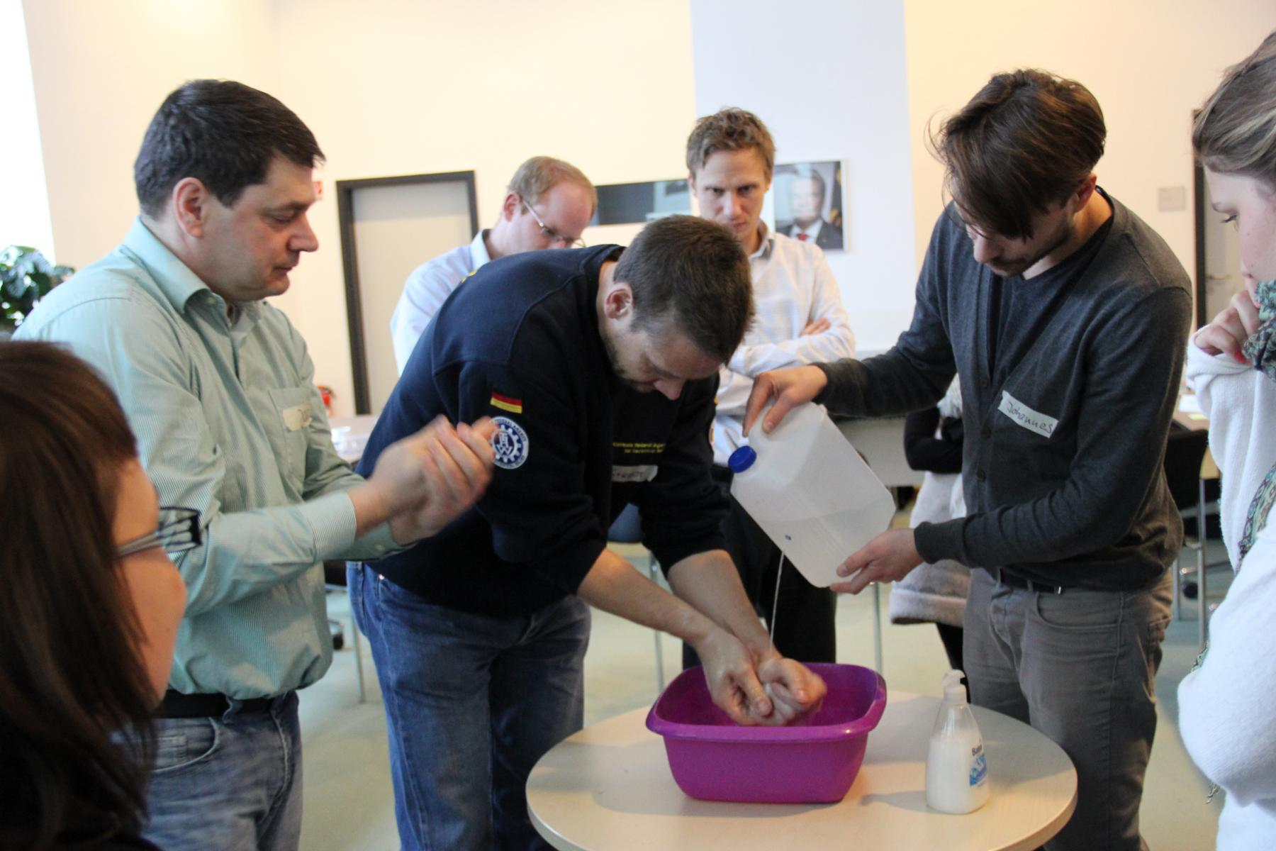 Germany - training course on hygiene promotion and behaviour change for German NGOs in Berlin, December 08th/9th 2012